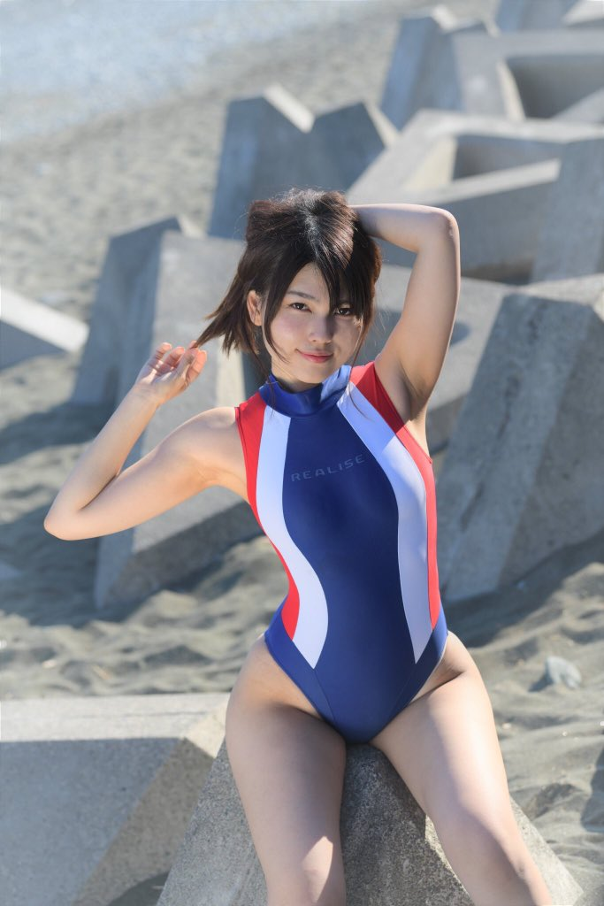 Maika Kobayashi with Realise swimsuit. 3rd Jun 2018 at Ohiso, Kanagawa pref. Japan.